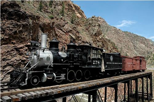 Denver & Rio Grande Narrow Gauge Trestle over the Gunnison River at Cimarron, Colorado next to the Morrow Point Dam. This Denver & Rio Grande Train and Trestle is listed on the National Register of Historic Places. Additional Bridge Photos and a Bridge Blog at